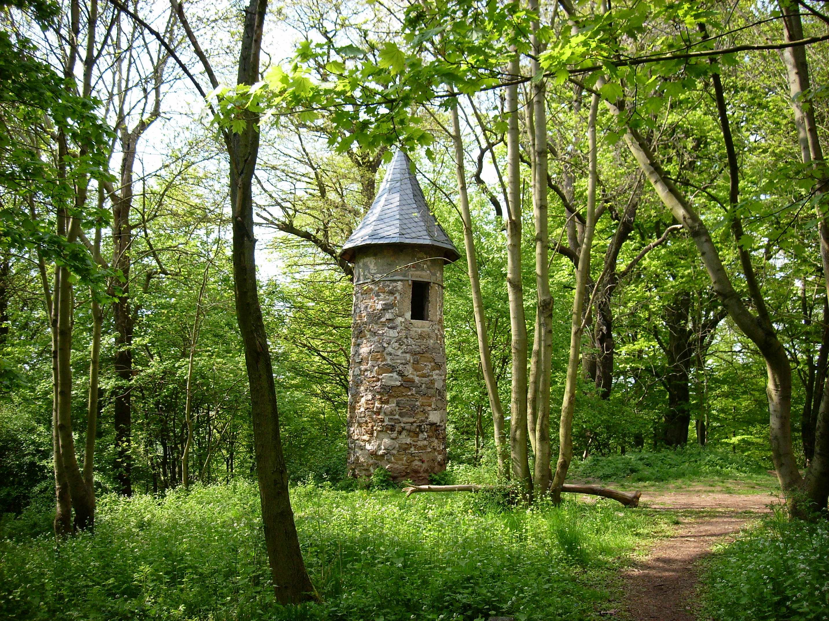 Warttürmchen (little watch-tower) in the Hohenrode Park, Nordhausen (Thuringia)